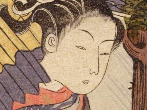 Crop of ukiyo-e print Woman Visiting the Shrine in the Night by Suzuki Harunobu